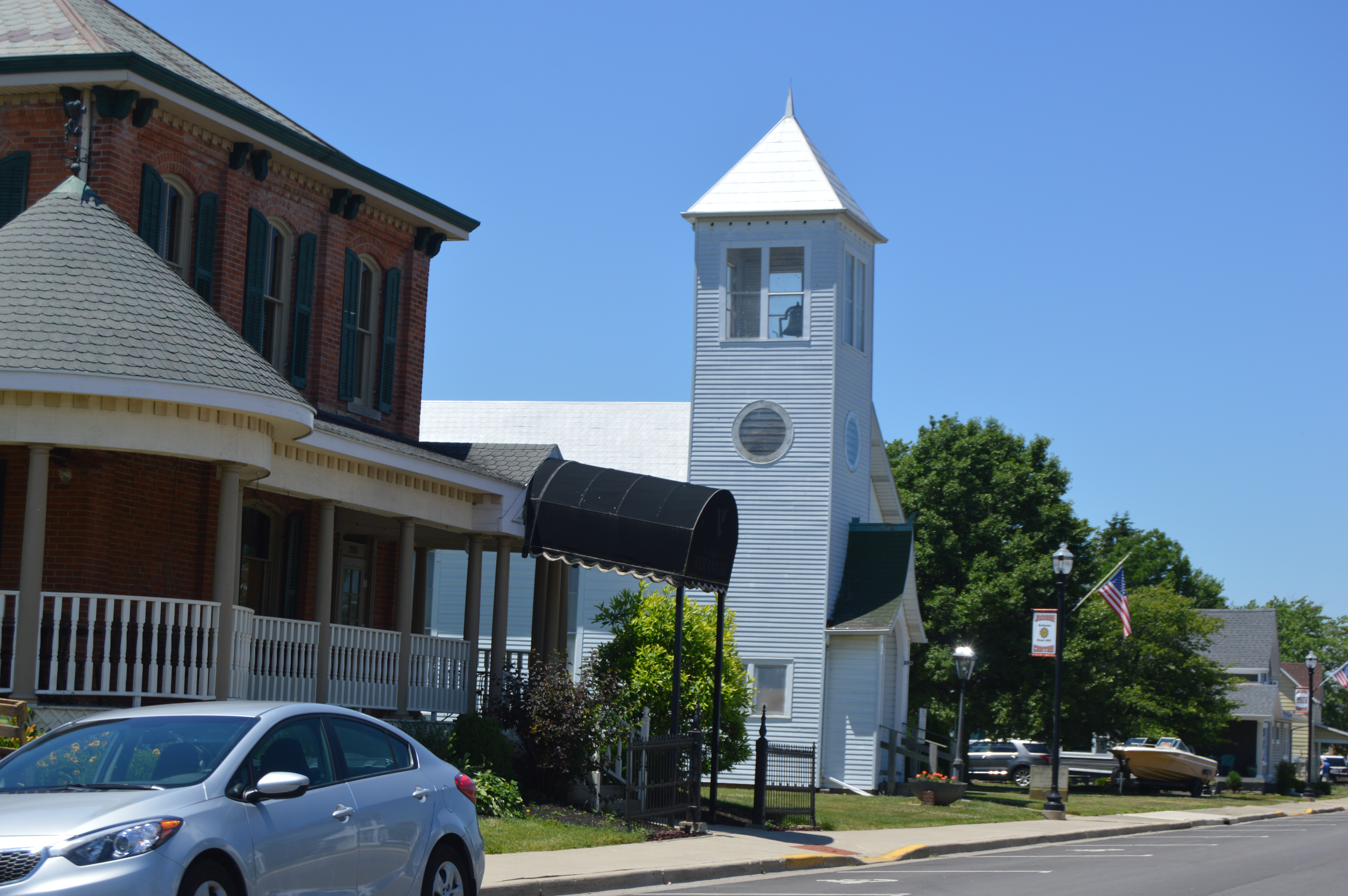 Houses and a former church located on the southern side of Pike Street (State Route 274) west of Main Street in Jackson Center, Ohio, United States.